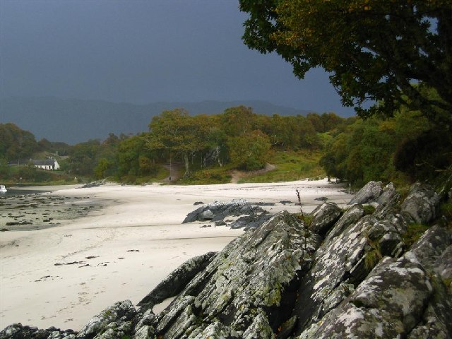 The Sands at Morar. This photo was taken on the eastern side of the River Morar, at 15:00 on 4th October, 2004.